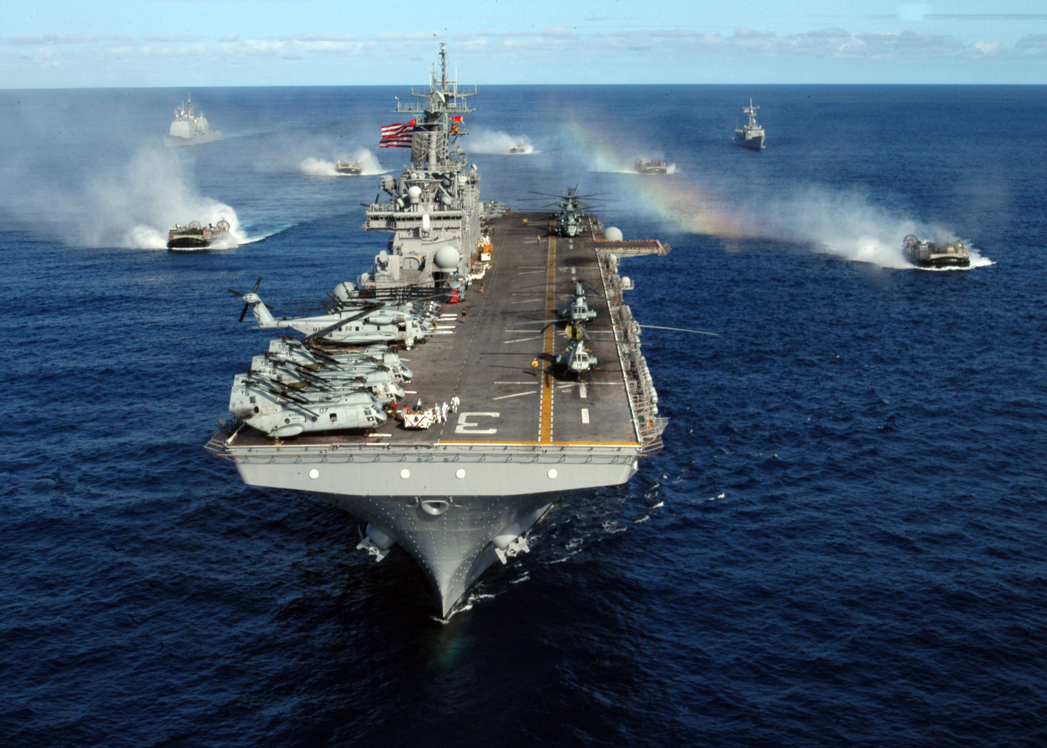 The USS Kearsarge Expeditionary Strike Group and landing craft air cushion attached to Assault Craft Unit 4 conduct steering maneuvers on Sept. 17, 2005. The Kearsarge and embarked assault craft are on deployment in the Atlantic Ocean.